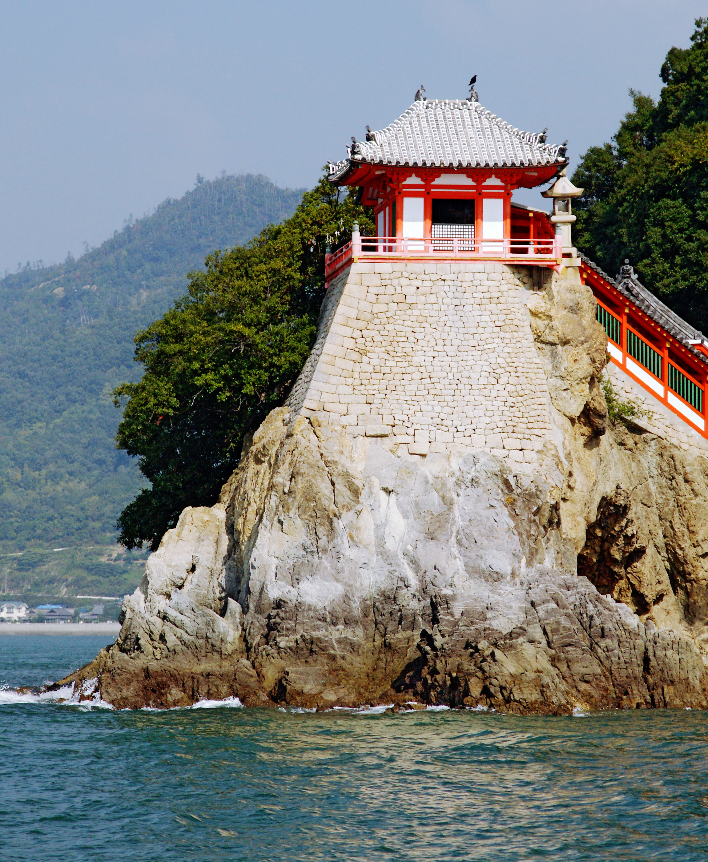 Bandai-ji kannondo (Abuto-kannon), Fukuyama, Hiroshima Prefecture, Japan